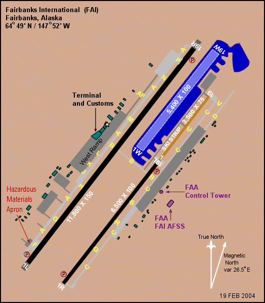 Diagram of Fairbanks International Airport (FAI) in Fairbanks, Alaska, United States.